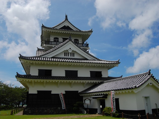 Tateyama Castle mark in Shiroyama Park, Tateyama, Chiba. Location: Tateyama, Caption: Tateyama Castle.